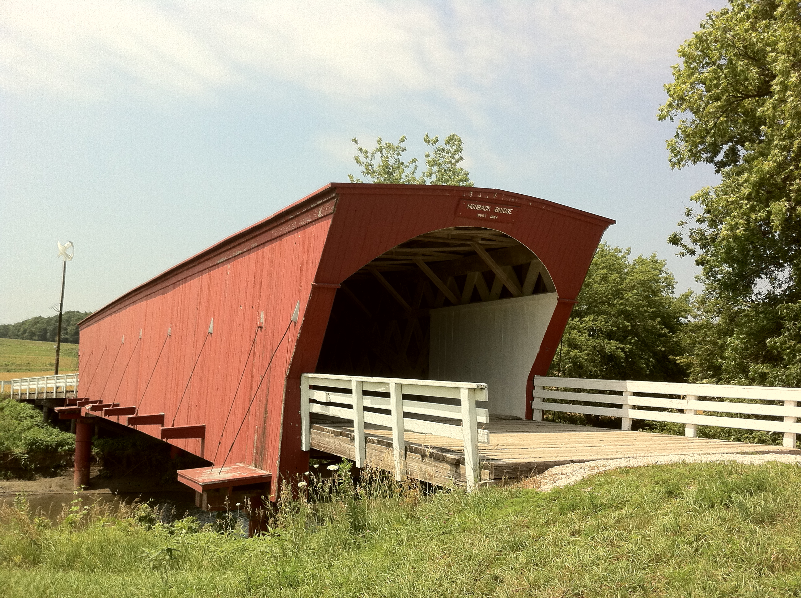 This is a photograph taken of the Hogback Covered Bridge on 16 July 2012. It was taken using an iPhone 4